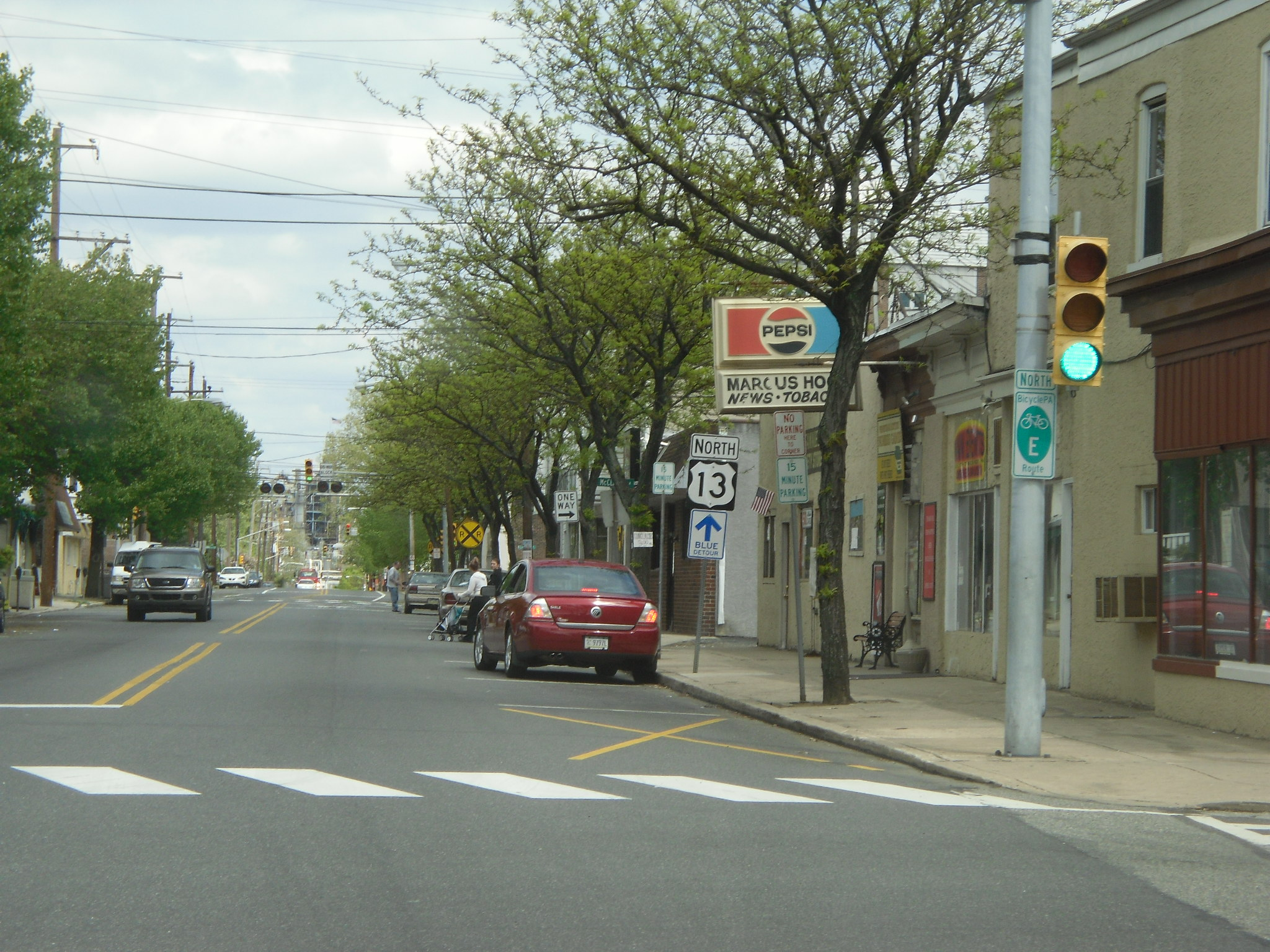 US Route 13 - Pennsylvania in Marcus Hook